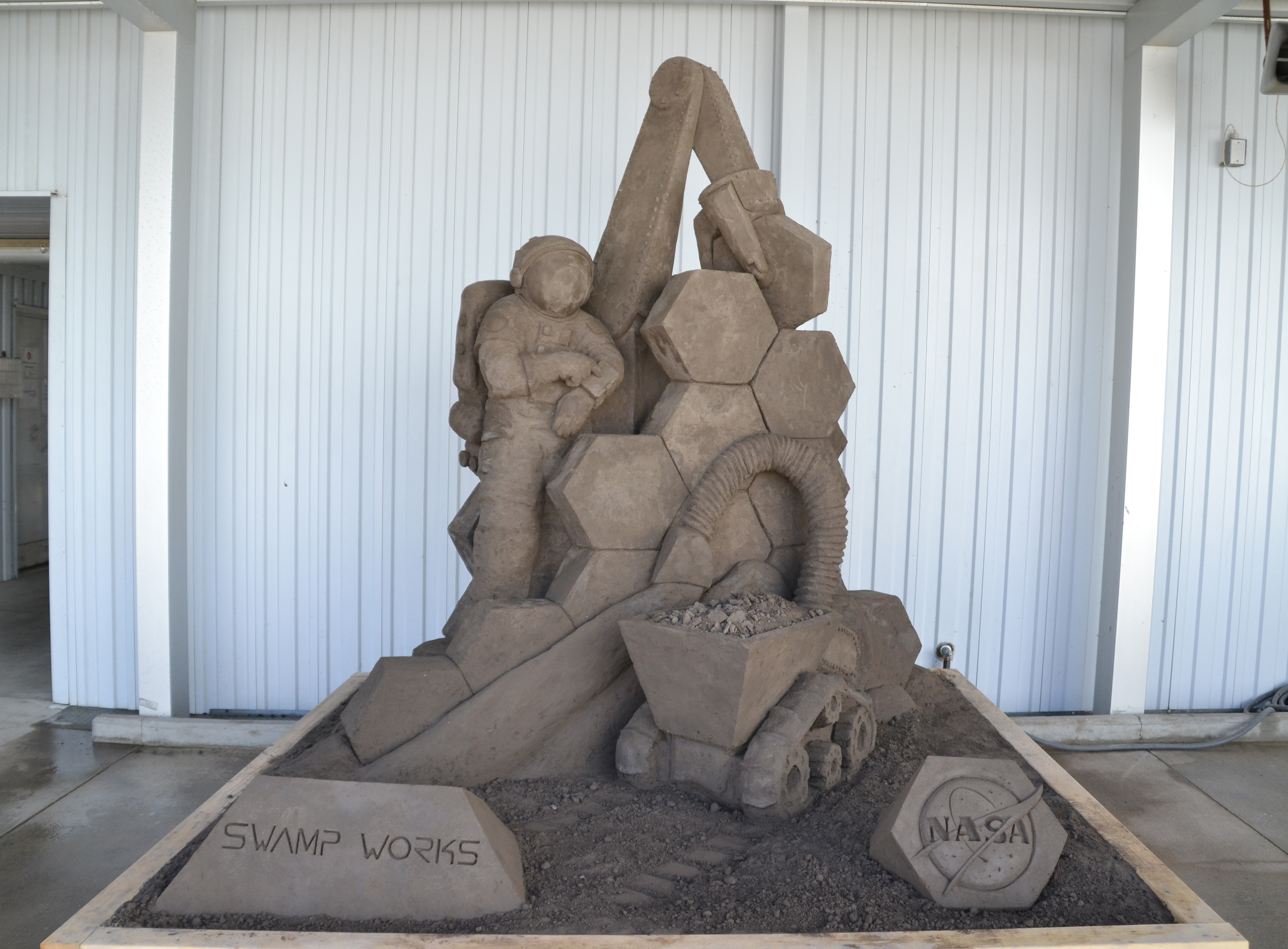 A sculpture by Sandtastic Sand Sculpting, located in front of the KSC Swamp Works. In the sculpture, an astronaut controls to robots to construct a lunar building. One robot in the foreground delivers loose regolith (lunar soil) through a tube into a pile. The other robot in the background stacks hexagonal bricks made of sintered (baked) lunar regolith. Lunar regolith can provide protection against solar and cosmic radiation as well as protection from micrometeoroid impacts. This work symbolized the KSC Swamp Works, which is a technology innovation lab that creates robotics technology to work on the surfaces of other planetary bodies and to use their resources.